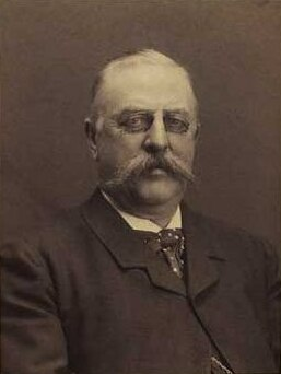 Danish politician, MP, count Frederik (Fritz) Christian Rosenkrantz Scheel (1833-1912)